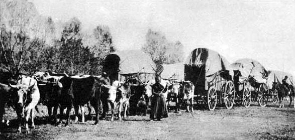 photograph of a wagon train